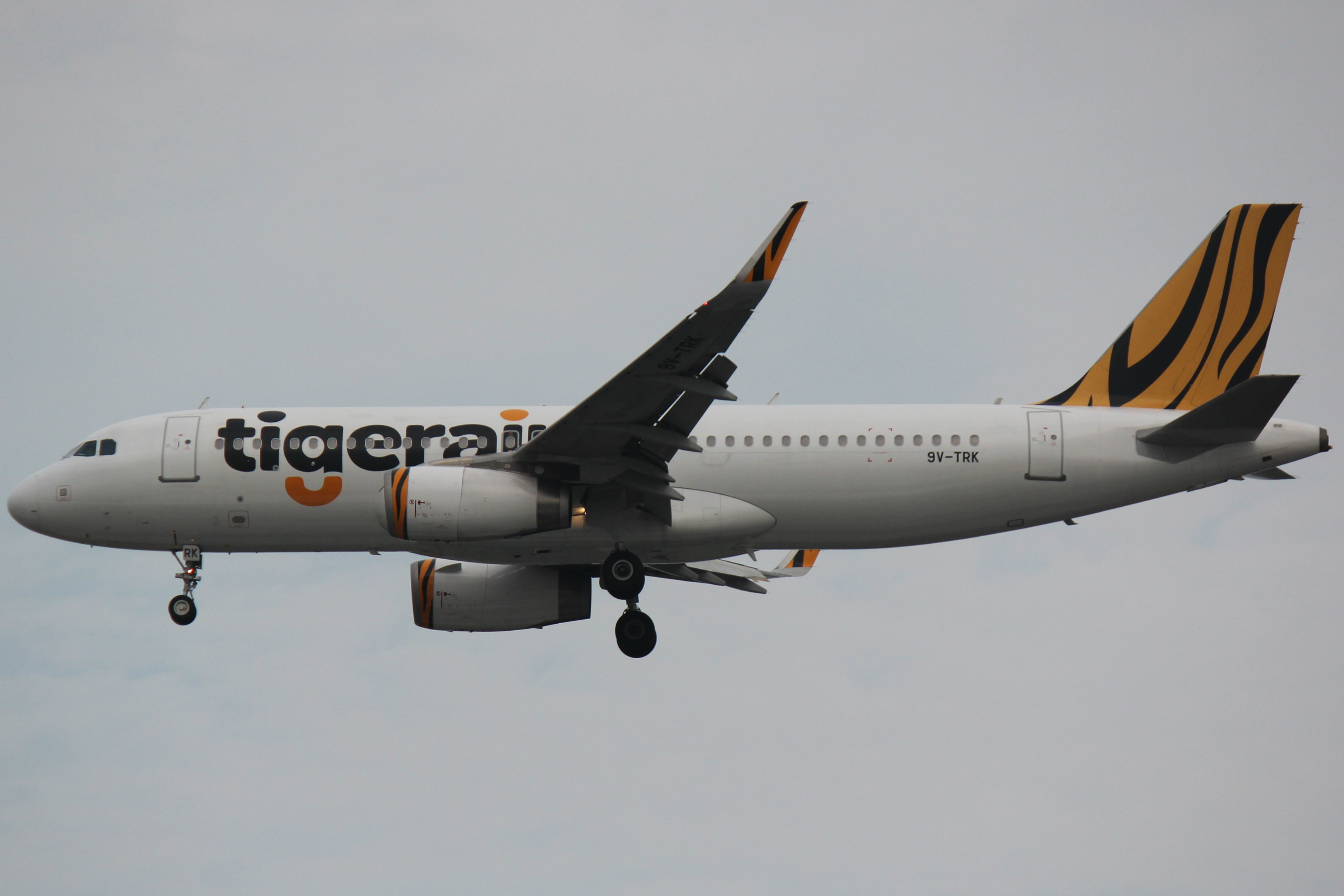 Approaching Singapore Changi 02L. Photo taken on 14 Oct 2014. Shot with my Canon 600D using 55-250mm lens.